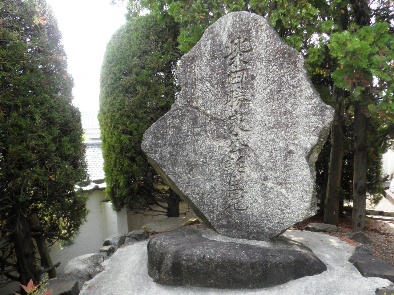 Birthplace of Shibata Katsuie in Nagoya, Aichi.